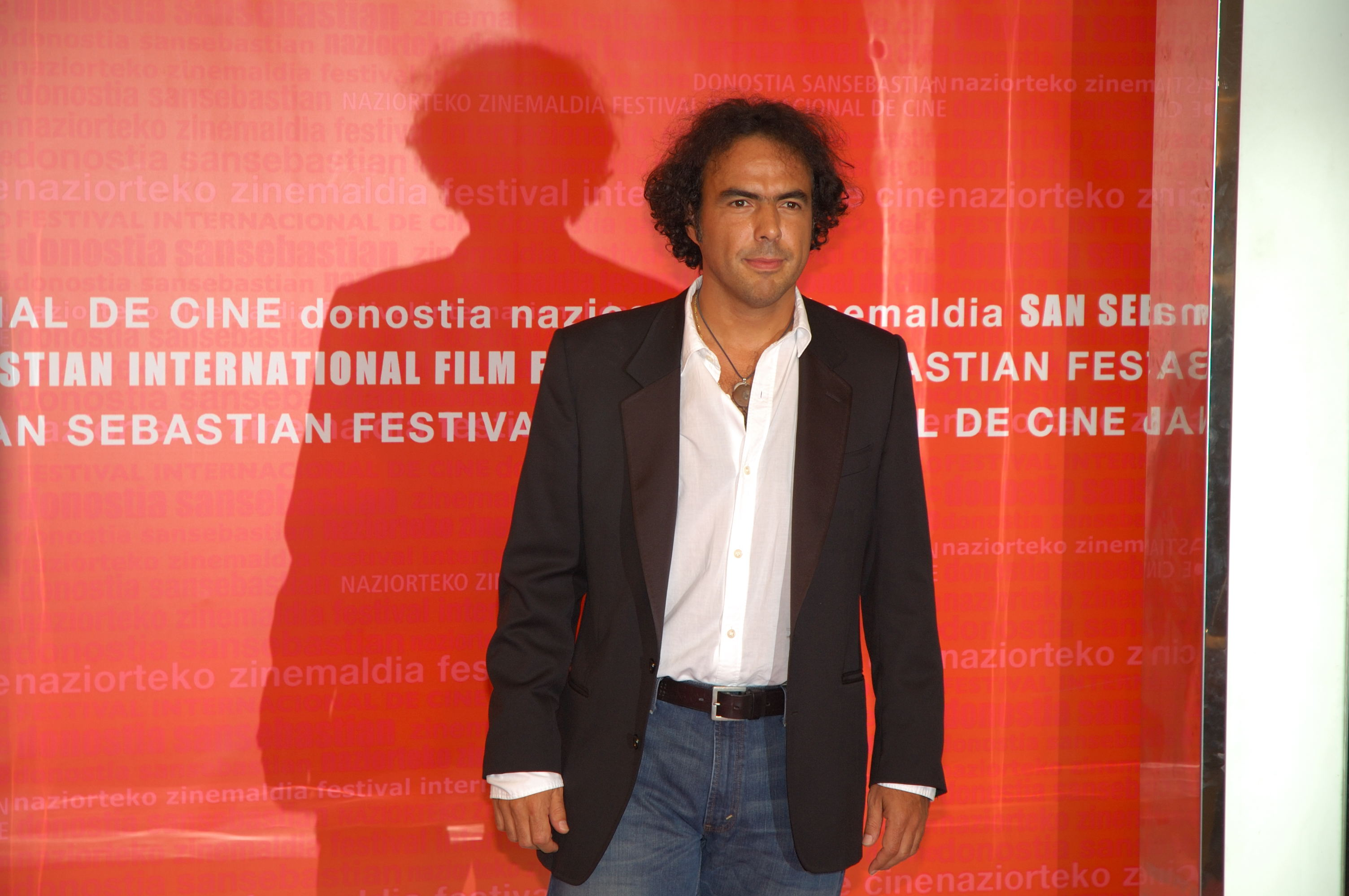 Alejandro González Iñarritu at the San Sebastian International Film Festival 2006 for the screening of Babel